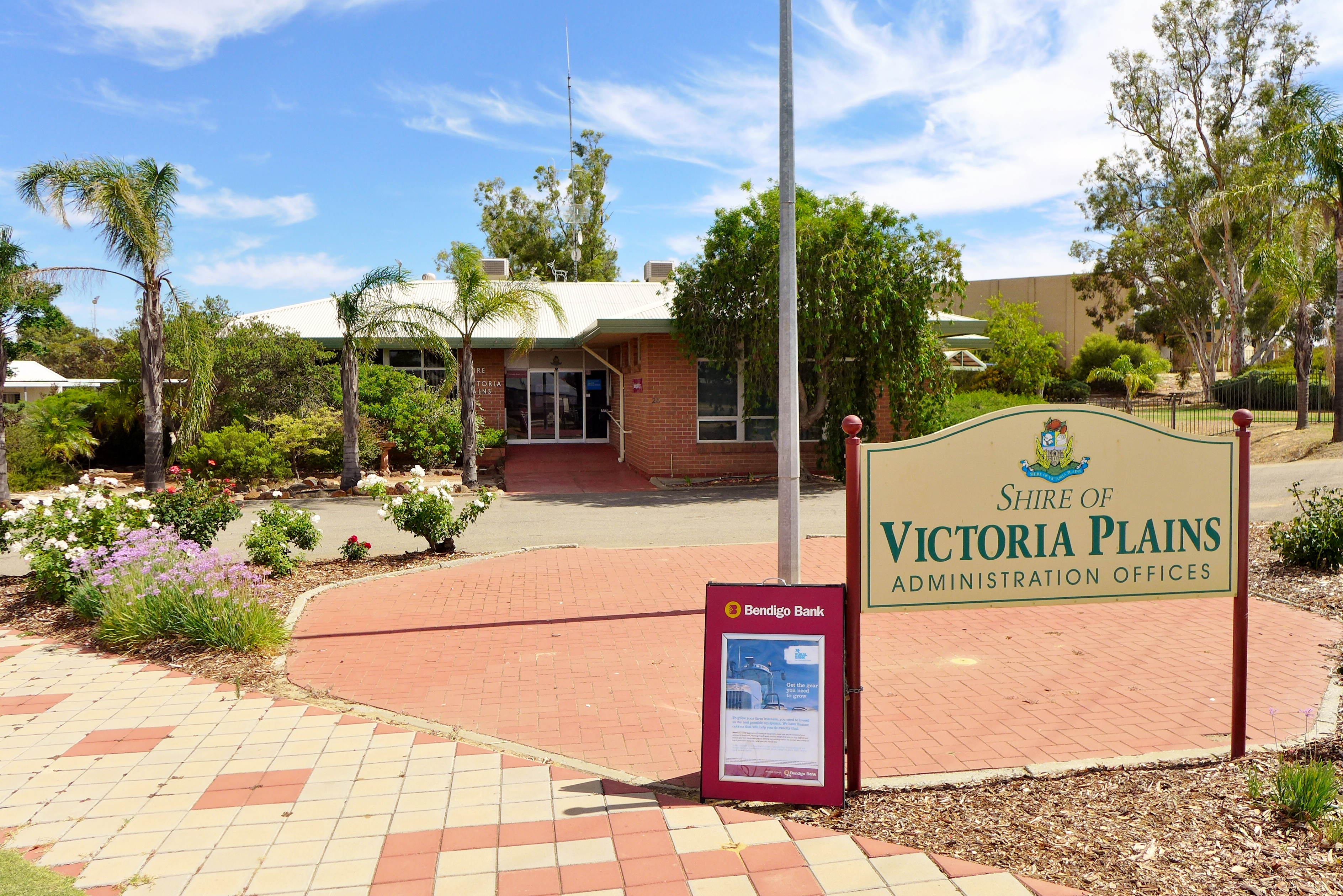 View of the shire offices of the Shire of Victoria Plains, 28 Cavell Street, Calingiri, Western Australia.